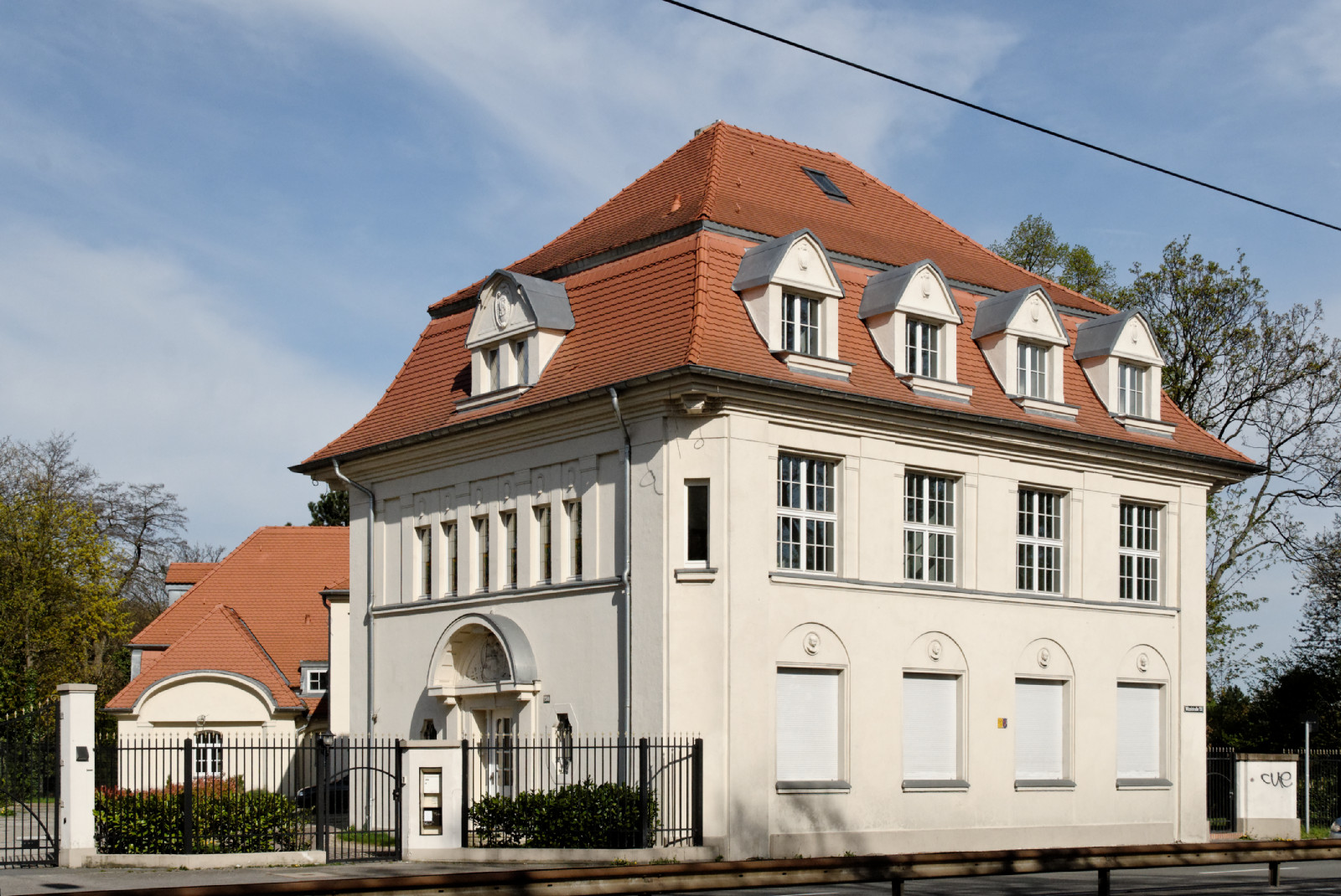 House Witzelstraße 150 in Düsseldorf-Bilk, Germany This is a photograph of an architectural monument.